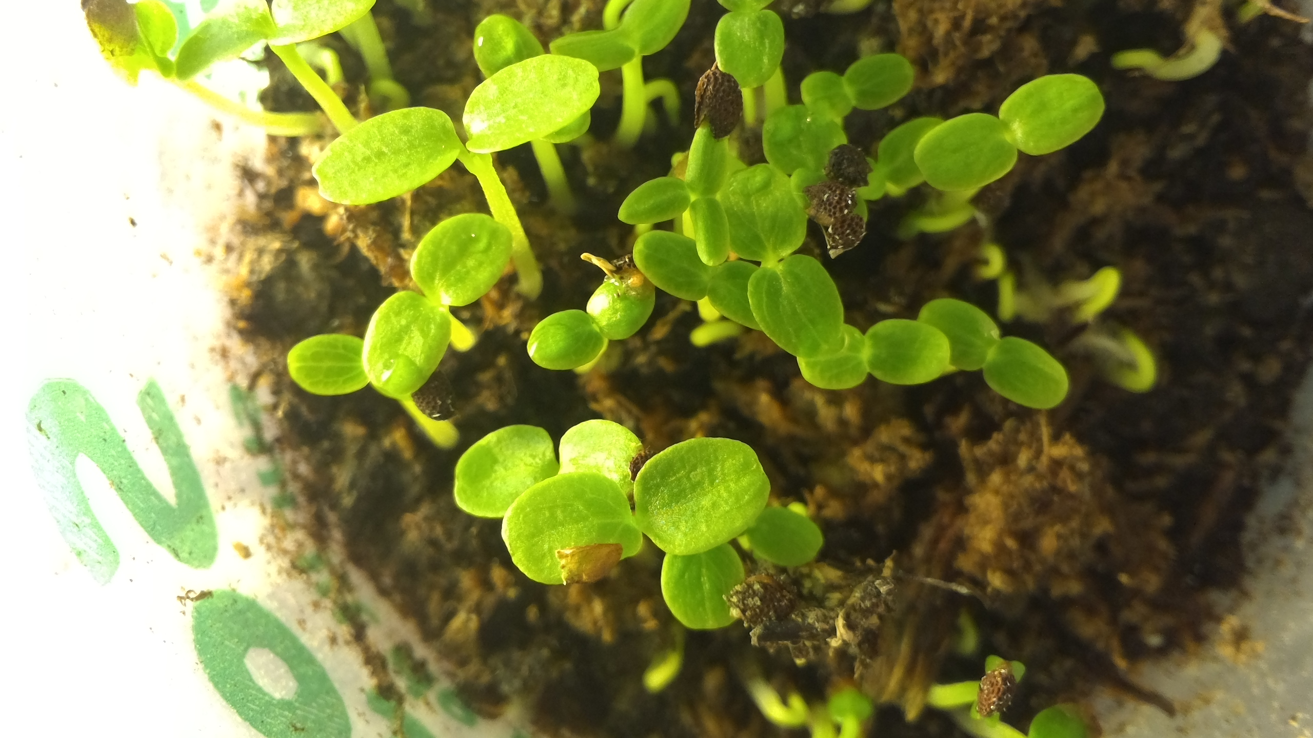 Kiwi sprouts in a plastic cup, approximately 10 days old. Shot taken under artificial light.